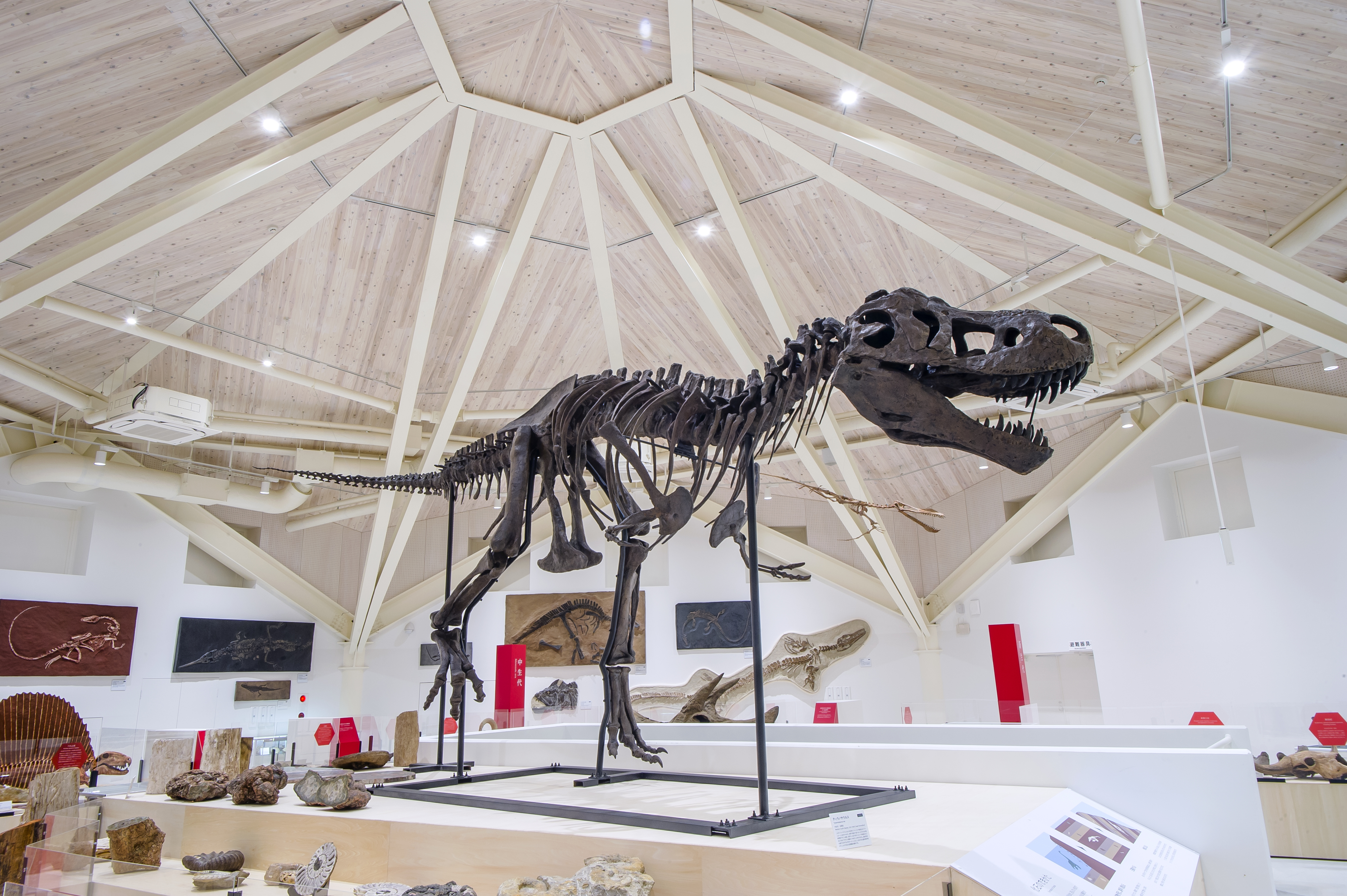 T-REX of Genbudo Museum(Tinker)